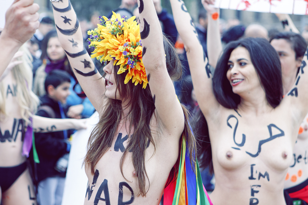 Femen protest in support to Aliaa Magda Elmahdy